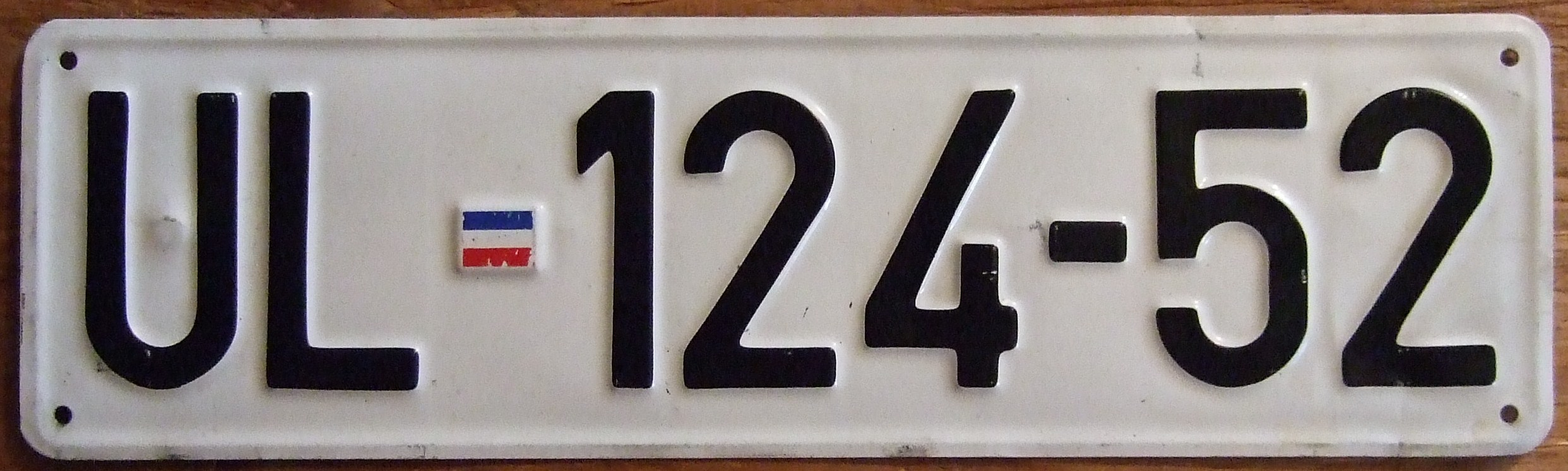 This license plate was issued in Montenegro when it was still in union with Serbia. This plate was non-reflective, Serbian plates were reflective.